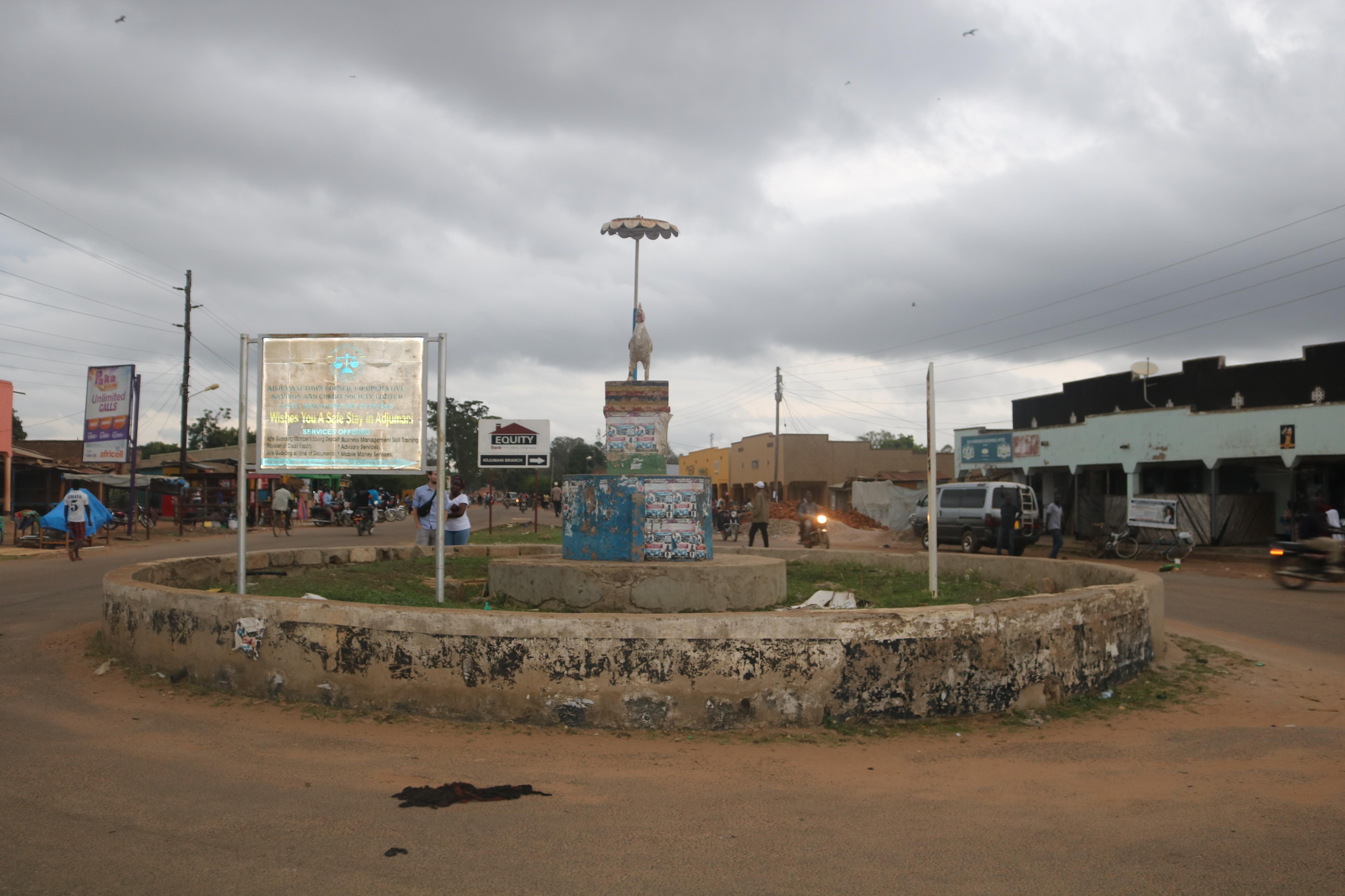 Round about in Adjumani Town, Uganda This is an image with the theme "Africa on the Move or Transport" from: Uganda